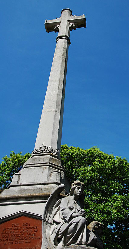 Taken for Earth Day 2009 Mosaic